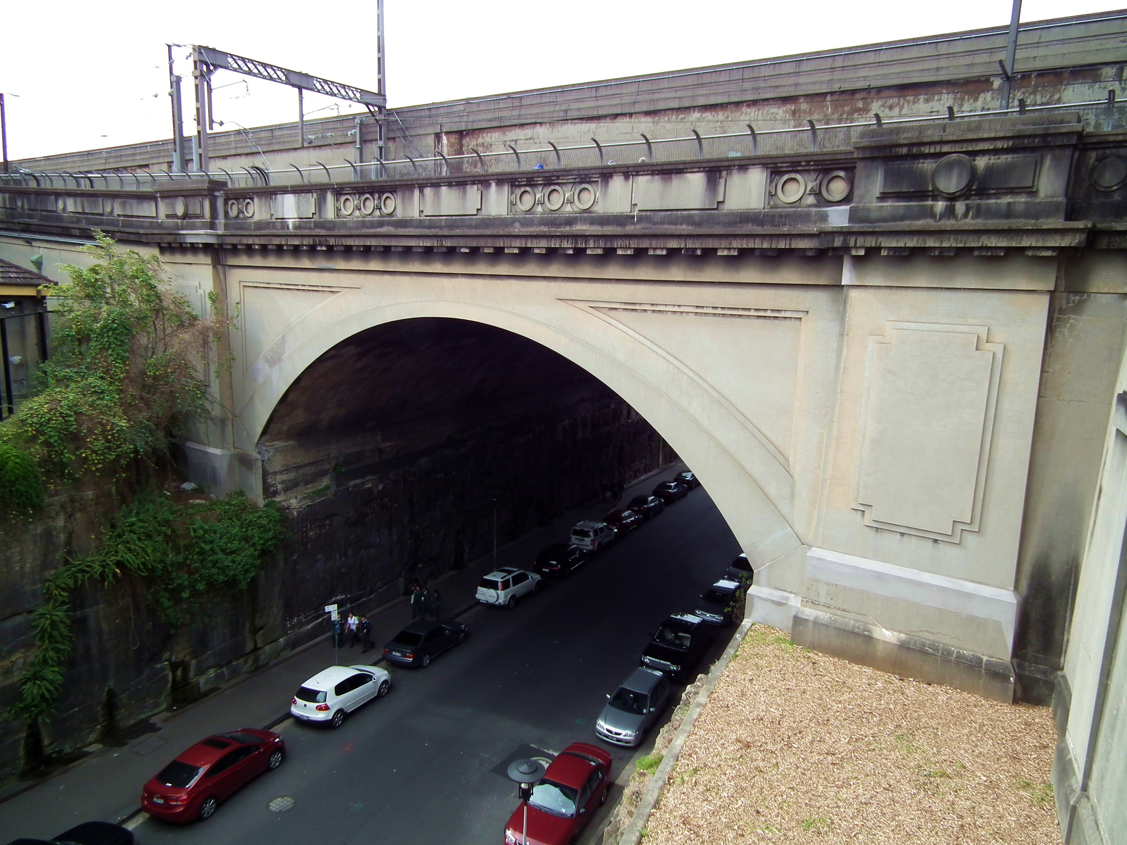 Argyle Cut - The Rocks, Sydney, New South Wales. Construction started in 1843 using convict labour, and was finally completed in 1859 using explosives and council labour.New South WalesThe original bridge over Princes Street was demolished when the Cut was widened during construction of the Sydney Harbour Bridge approaches. Located on Argyle Street.